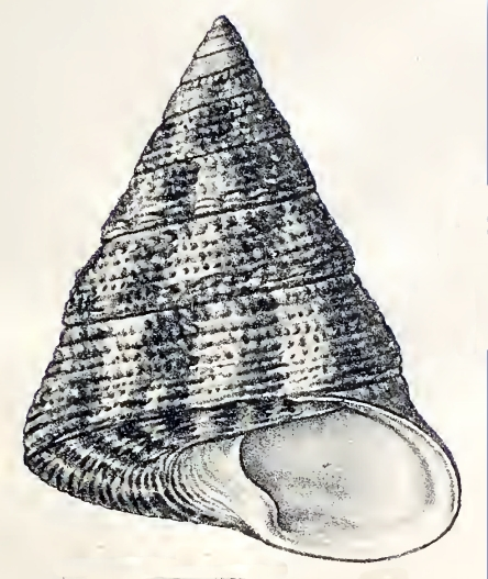 Tectus conus (Gmelin, 1791); family Tegulidae